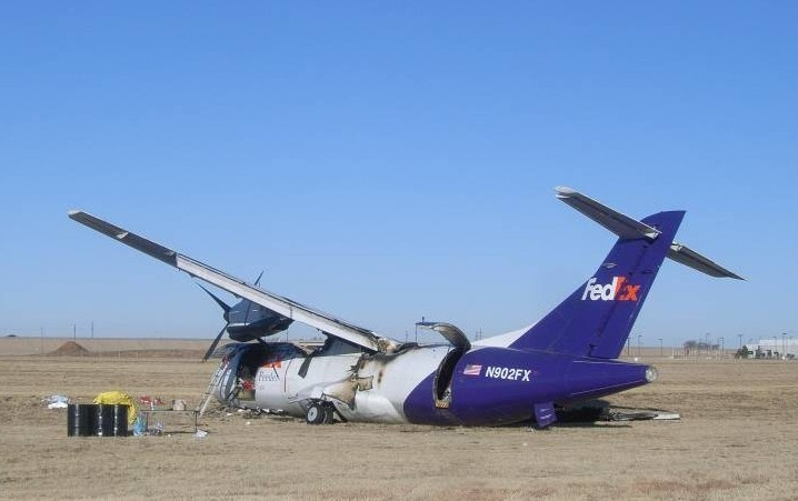 Empire Airlines Flight 8284（N902FX） wreckage2